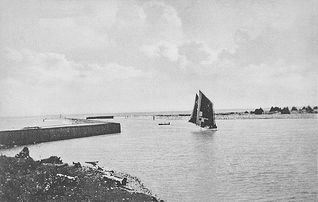 Harbor, Bayfield, Ontario, Canada Creator: G.H. Hewson Date: 1910 Identifier: PC-ON 124 Format: Postcard Rights: Public domain Courtesy: Toronto Public Library You can order order a print or high-resolution copy.